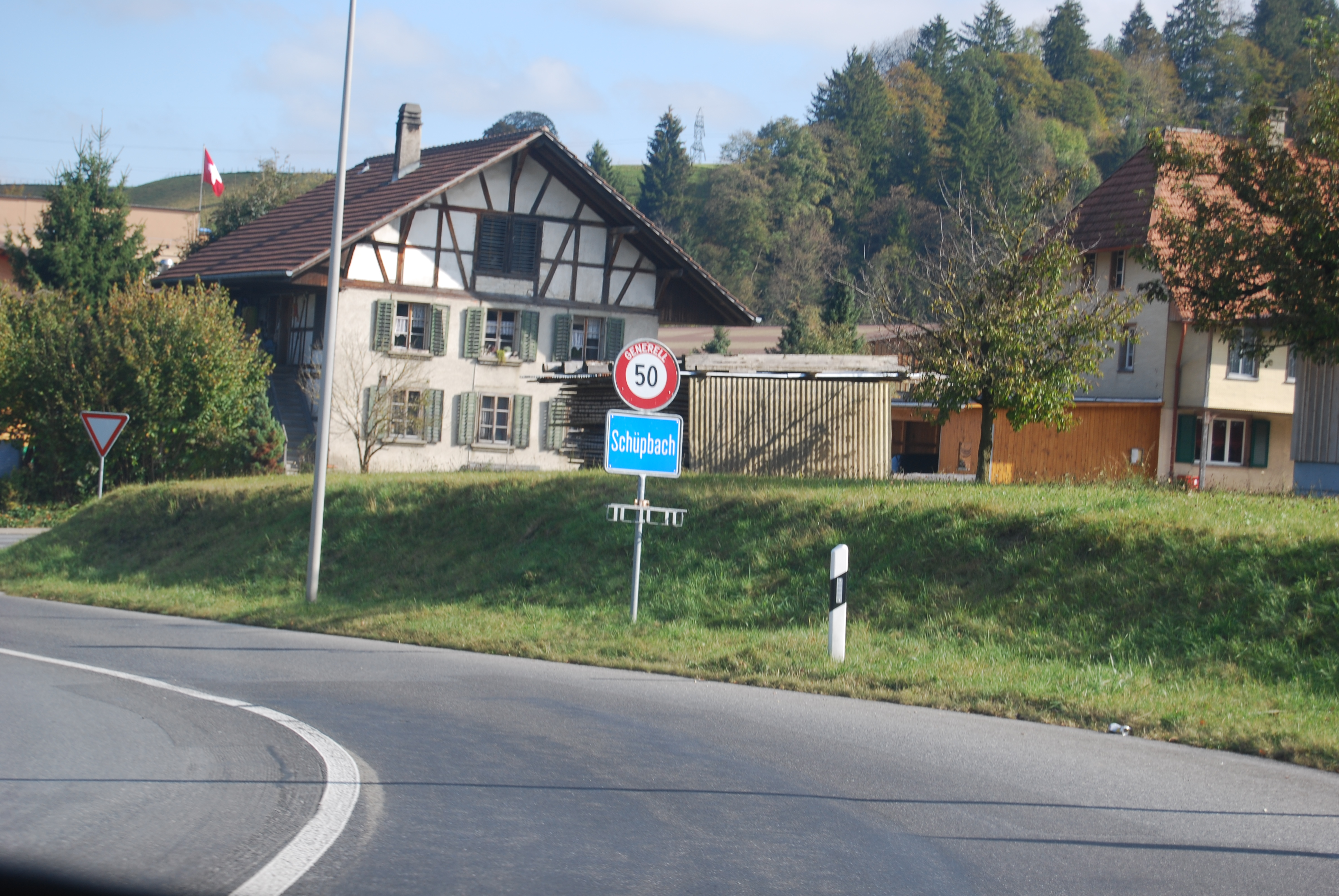 Schüpbach, municipality of Signau, canton of Bern, SwitzerlandEsperanto: Schüpbach, komunumo Signau, Kantono Berno, Svislando